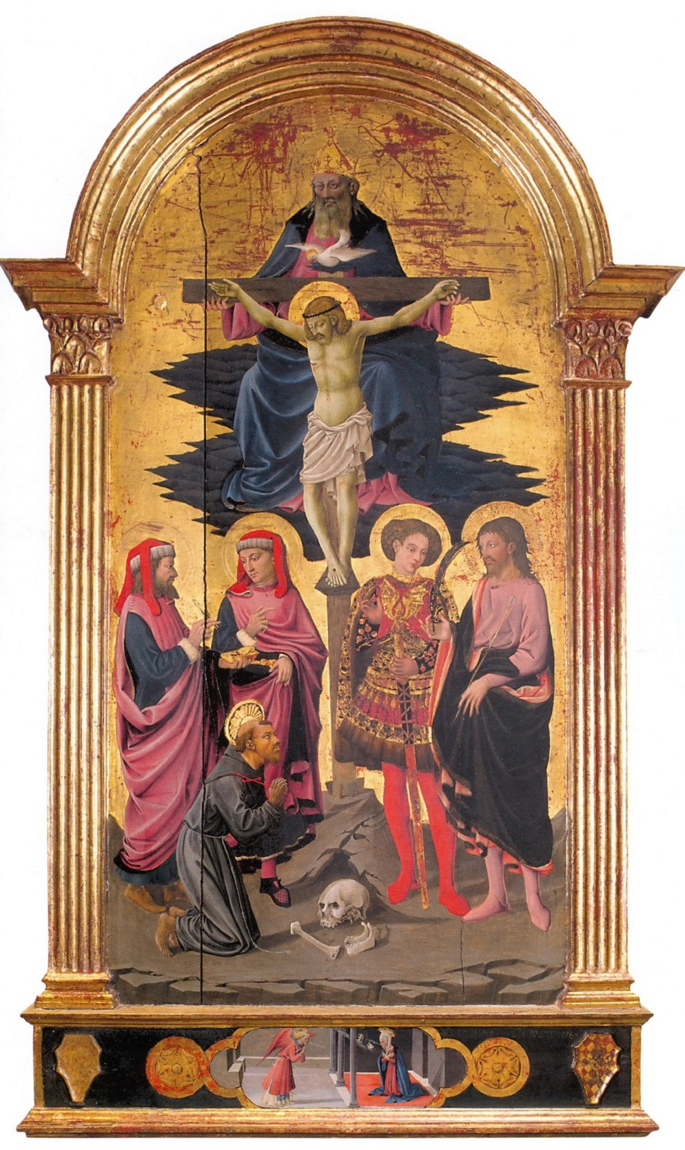 Apollonio di Giovanni, Trinita fra i santi Cosma, Damiano, Giuliano, Sebastiano e Francesco, ca. 1450, Firenze, Galleria dell'Accademia.